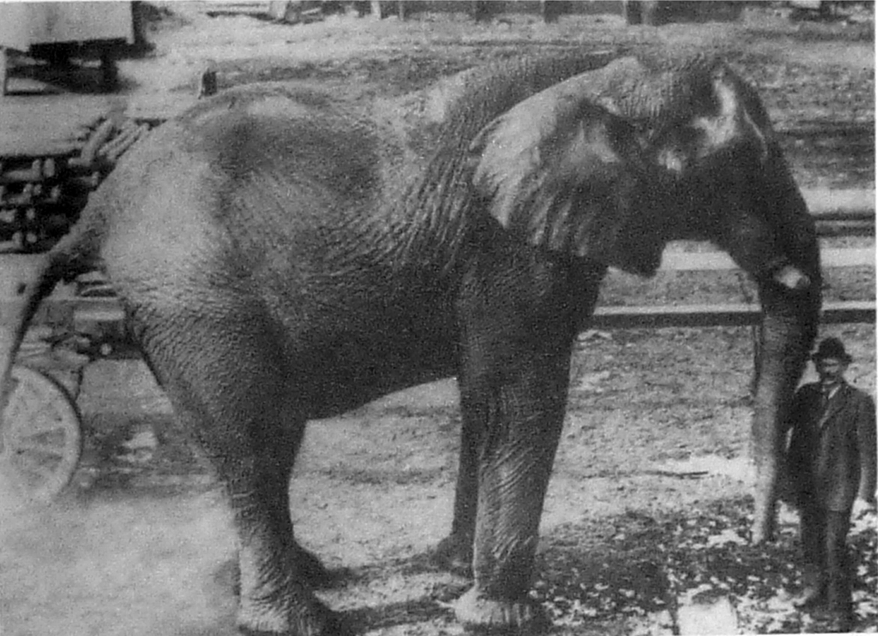 Jumbo mit Matthew Scott